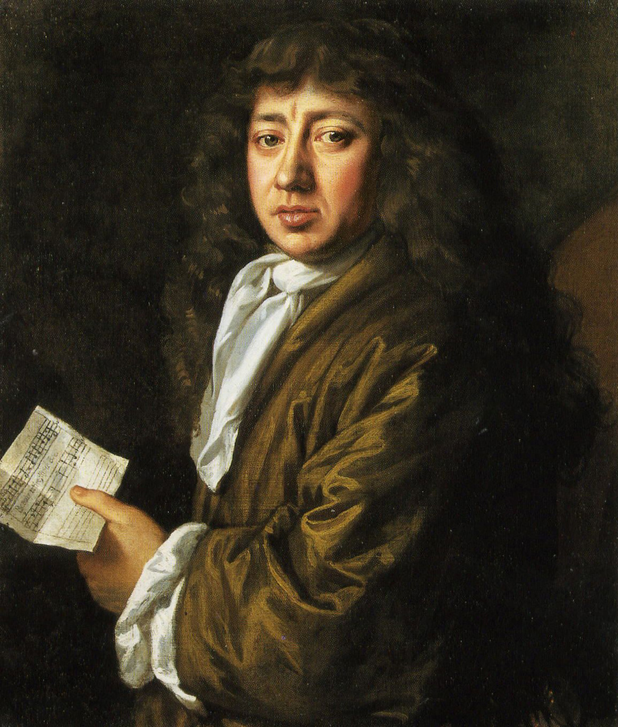 Portrait of Samuel Pepys (1633-1703)